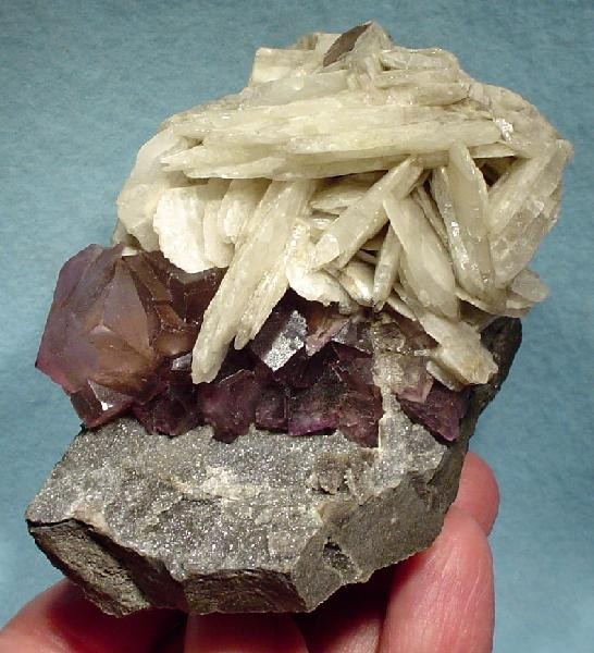 Fluorite, Baryte Locality: Limestone quarry, Bergheim, Ribeauvillé, Haut-Rhin, Alsace, France (Locality at ) Size: 8.0 x 8.0 x 6.8 cm. A fine combination specimen from the small, but well-known old quarry at Bergheim, Alsace, France. A band of sharp, lustrous, translucent, purple fluorite cubes is attractively sandwiched between lustrous, off-white baryte blades on top and a "porch" of massive limestone beneath. The large fluorite cube is 2.0 cm and is pristine. The jackstraw pattern of the baryte blades against the purple fluorite cubes really sets this fine piece off. Ex. George Elling Collection.